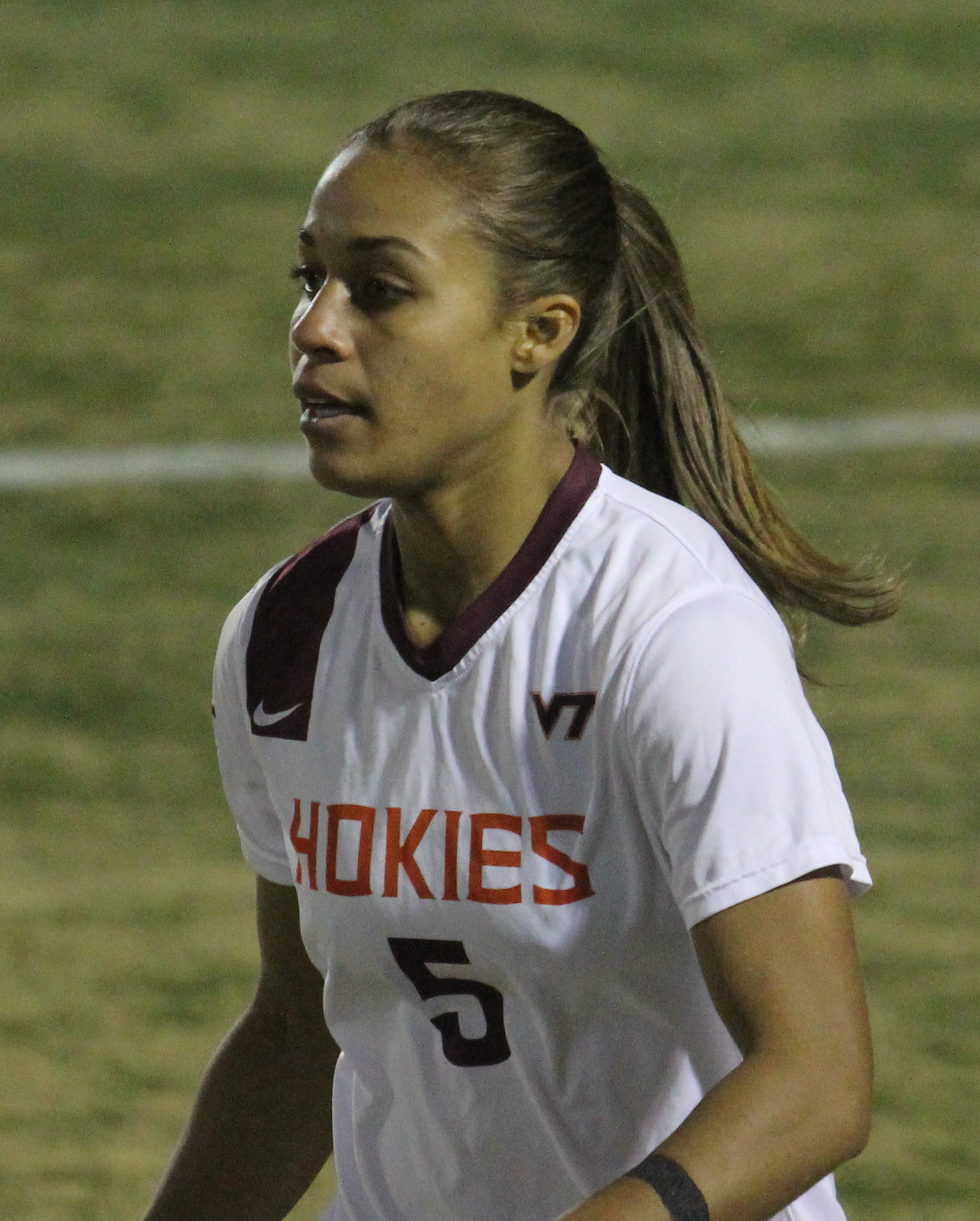 2013-11-15 VTech W Soccer-41